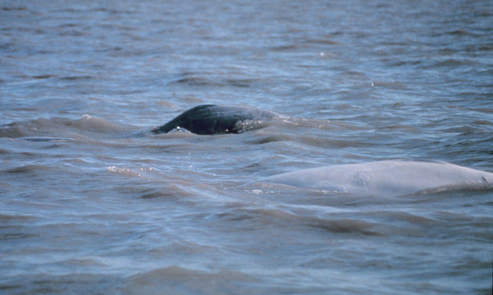 Beluga, adult female with calf; Cook Inlet, Alaska.